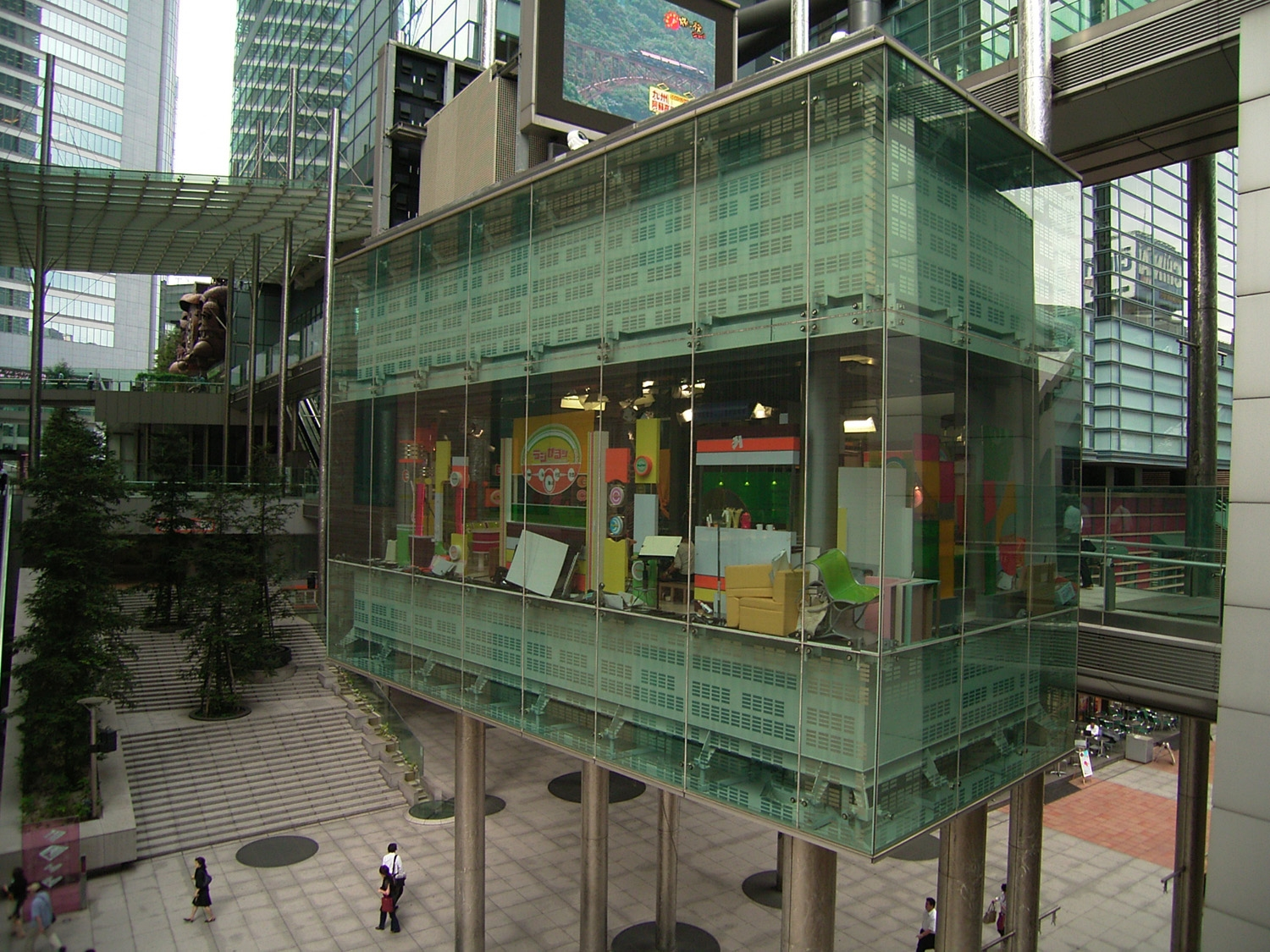 “Zero Studio”〈Nippon Television Network Corporation Head Office Building〉 Nittele tower address = 1-6-1, Higashishinbashi, Minato-ku, Tokyo